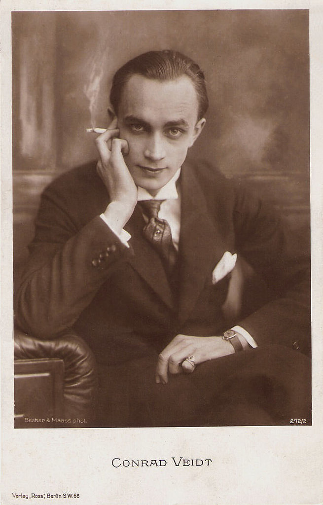 Portrait of German actor Conrad Veidt (1893–1943) Becker & Maass, Berlin. Distributed by Ross-Verlag.